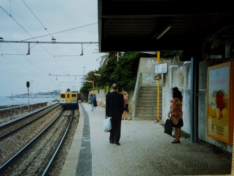 Commuter train to Lisabon.